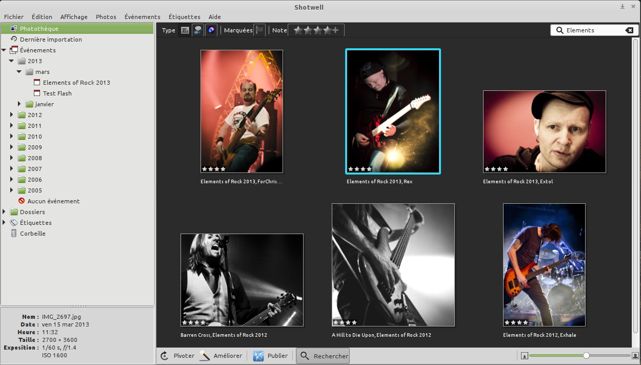 Screenshot of Shotwell in 0.14.